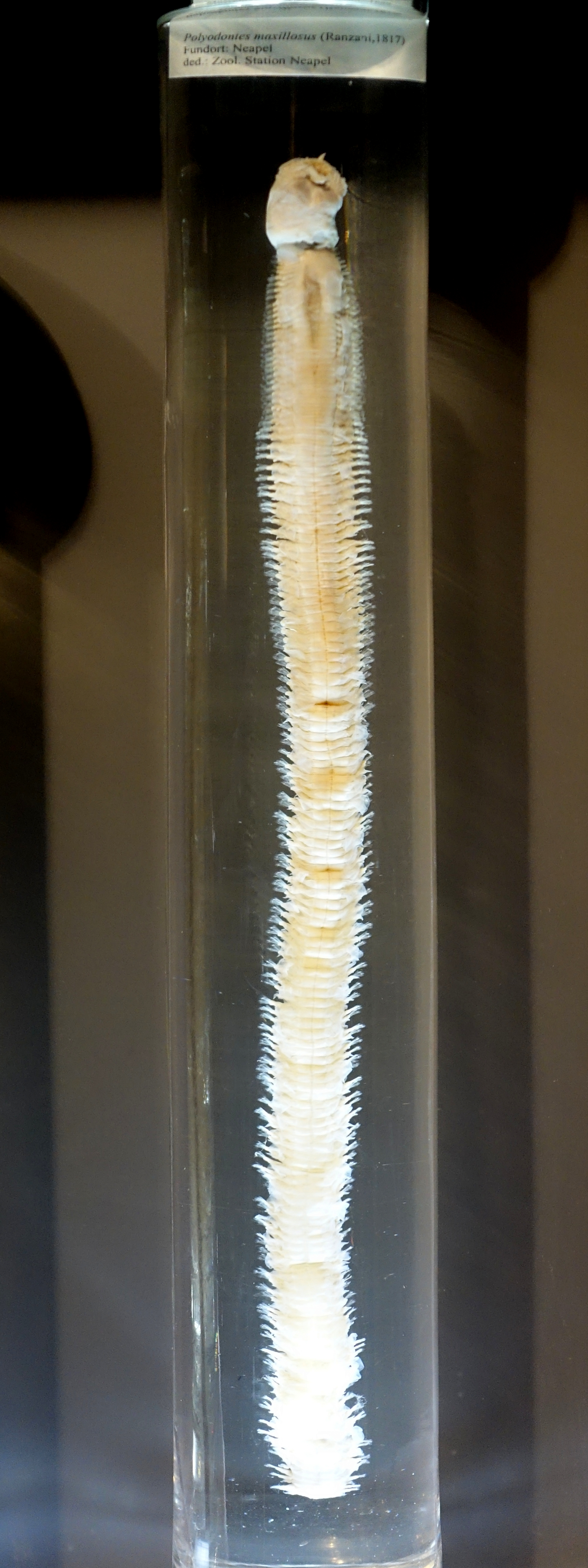 Exhibit in Museum für Naturkunde, Berlin, Germany.